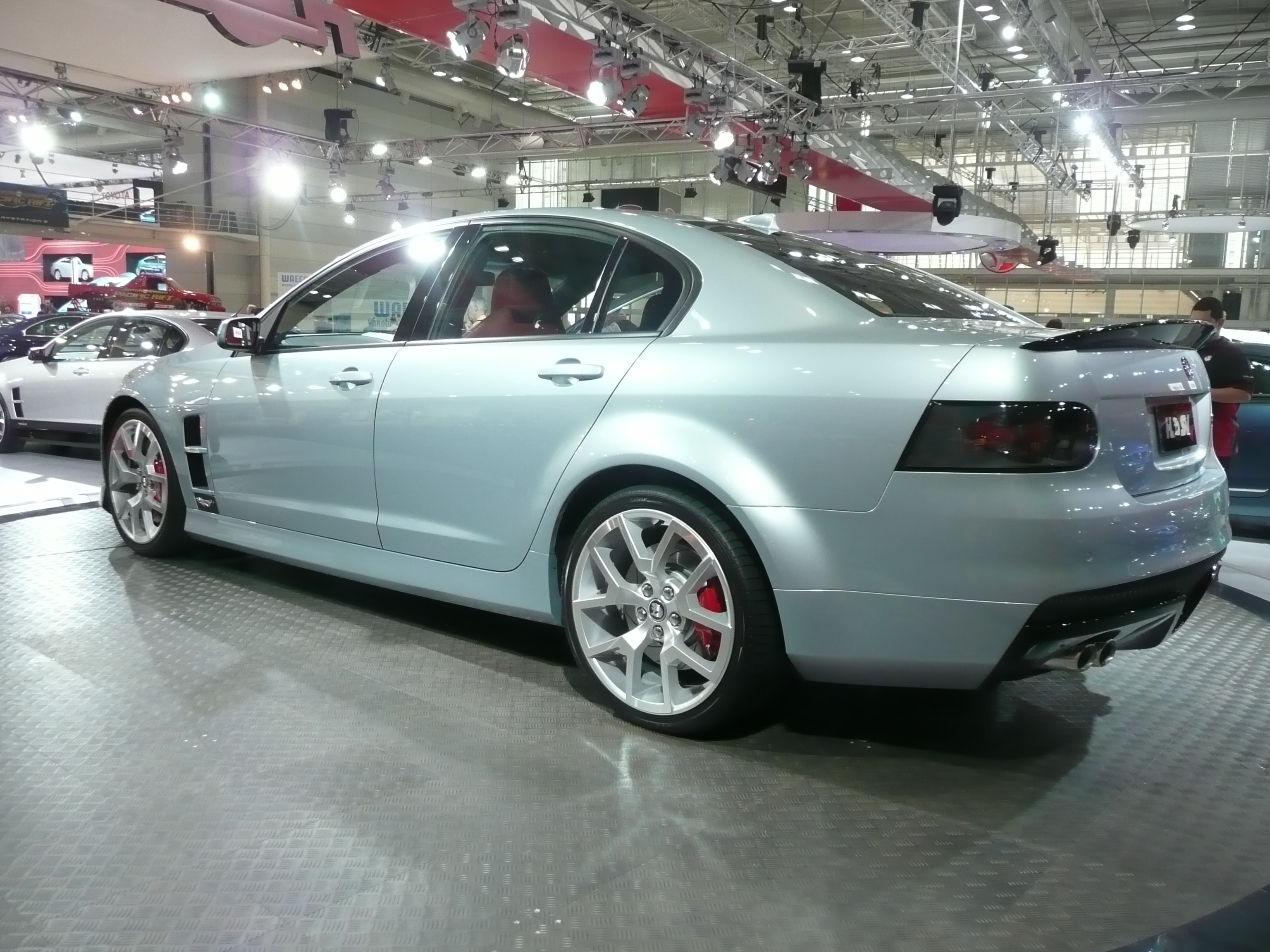 2008 HSV W427 (E Series) sedan. Photographed at the 2008 Australian International Motor Show, Sydney, New South Wales, Australia.